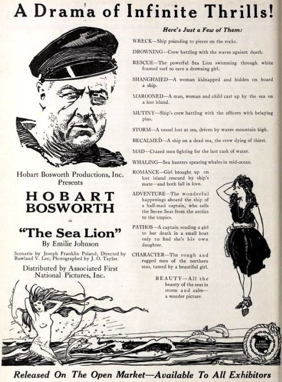 Advertisement for the American adventure film The Sea Lion (1921) with Hobart Bosworth and Bessie Love, on page 34 of the December 31, 1921 Exhibitors Herald.